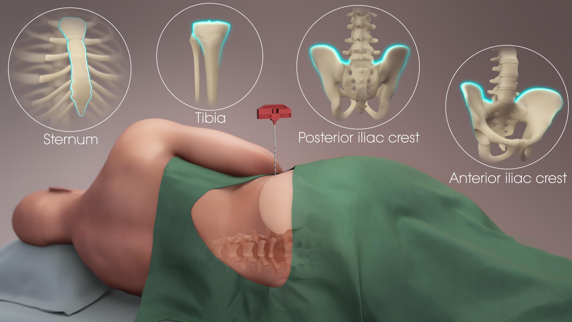 A 3D medical animation still showing preferred Sites for Bone Marrow Aspiration.